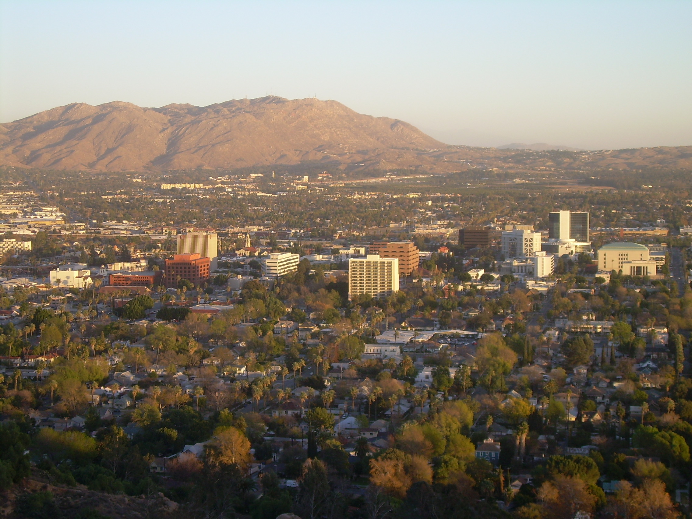 Riverside, California